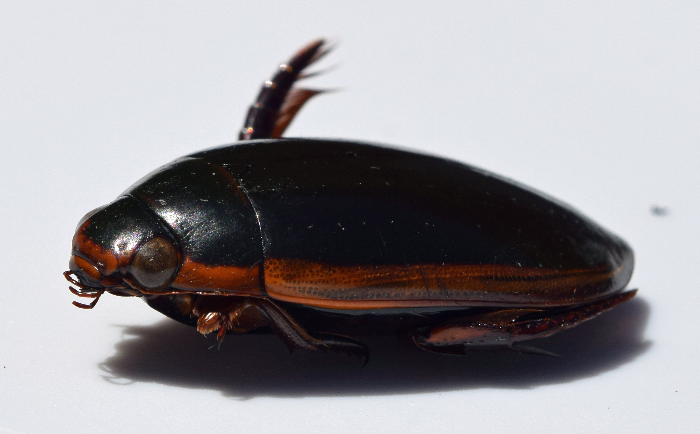 A dead adult male Cybister fimbriolatus at the University of Mississippi Field Station.